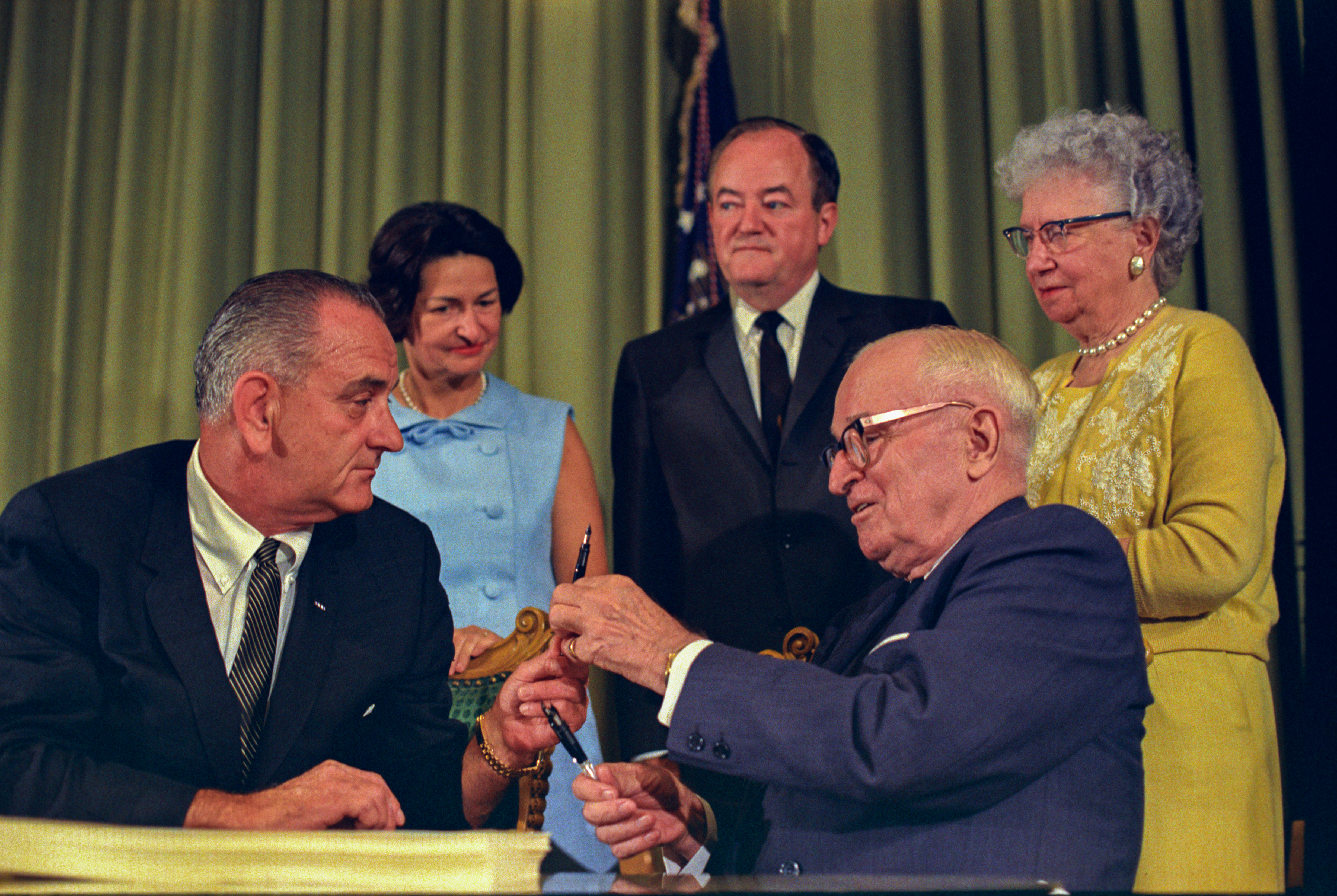 President Lyndon Johnson hands President Harry S. Truman a pen as Lady Bird Johnson, Vice President Hubert Humphrey, and Bess Truman look on.